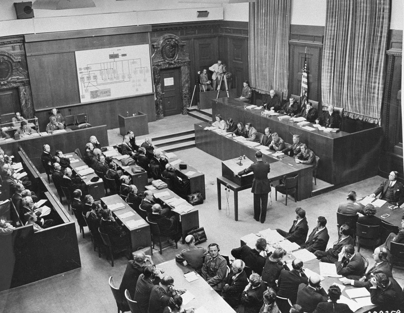 see title